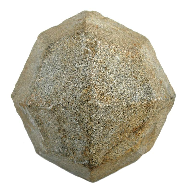 Leucite, Orthoclase Locality: Oberwiesenthal, Germany Size: small cabinet, 6.4 x 5.7 x 5.5 cm Orthoclase pseudo. after Leucite A wonderfully stereotypical, complete-all-around, 360-degree, pseudomorphic trapezohedral crystal comprising what must once have been a beautiful garnet-shaped Leucite crystal now replaced by orthoclase of the consistency and visual stunningness of sidewalk cement. Well, admittedly that is not a beautiful advertisement of color, but it IS a beautiful piece for symmetry and a really nifty locality specimen.